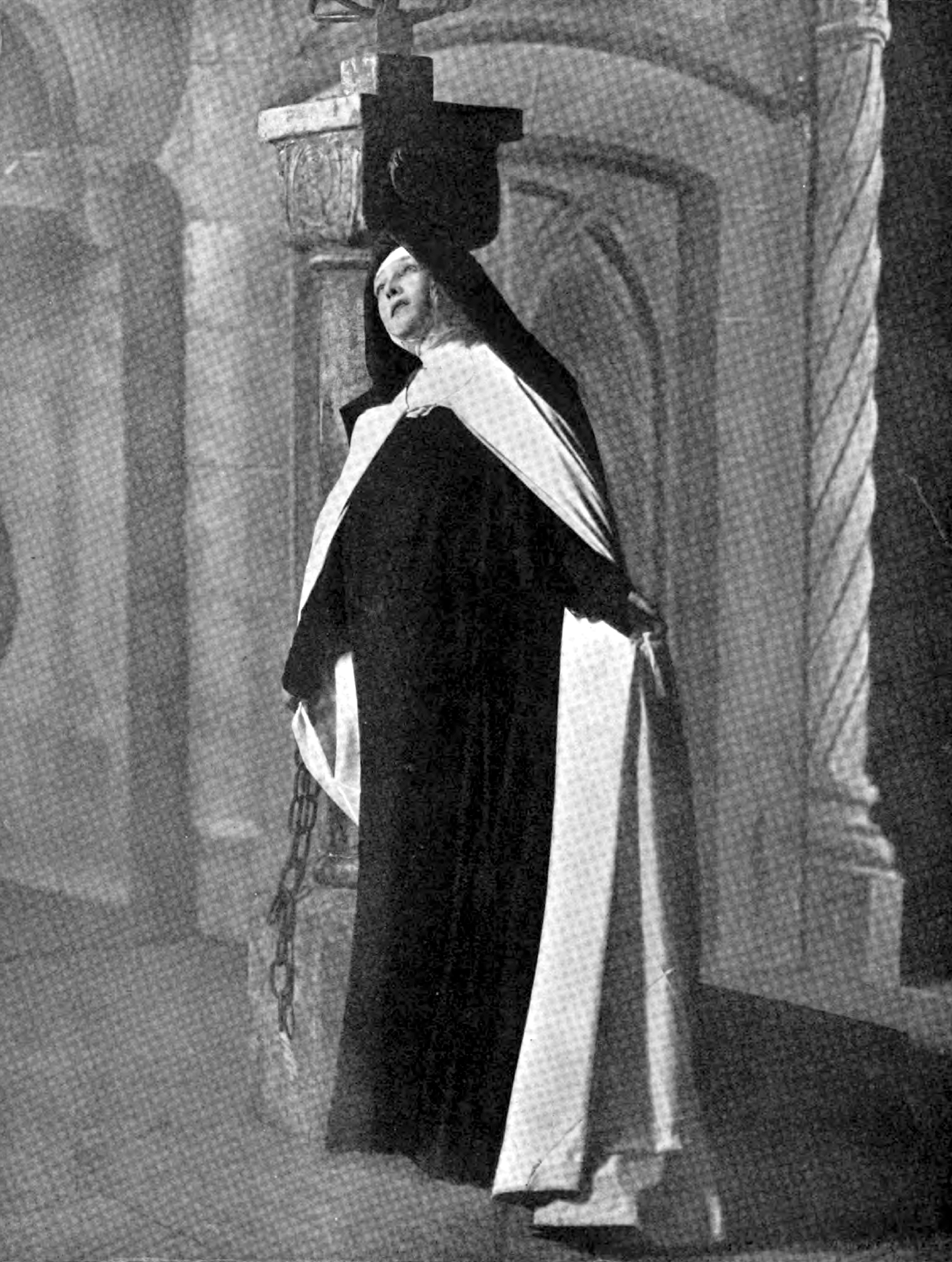 Photograph of Sarah Bernhardt in La Vierge d'Avila